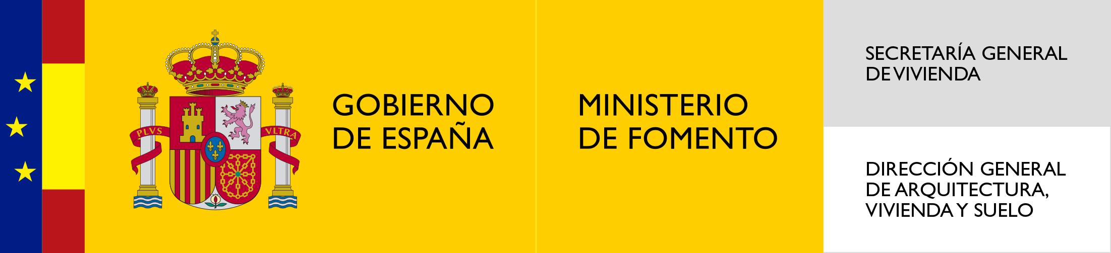 Logo of the Directorate-General for Architecture, Housing and Land of Spain